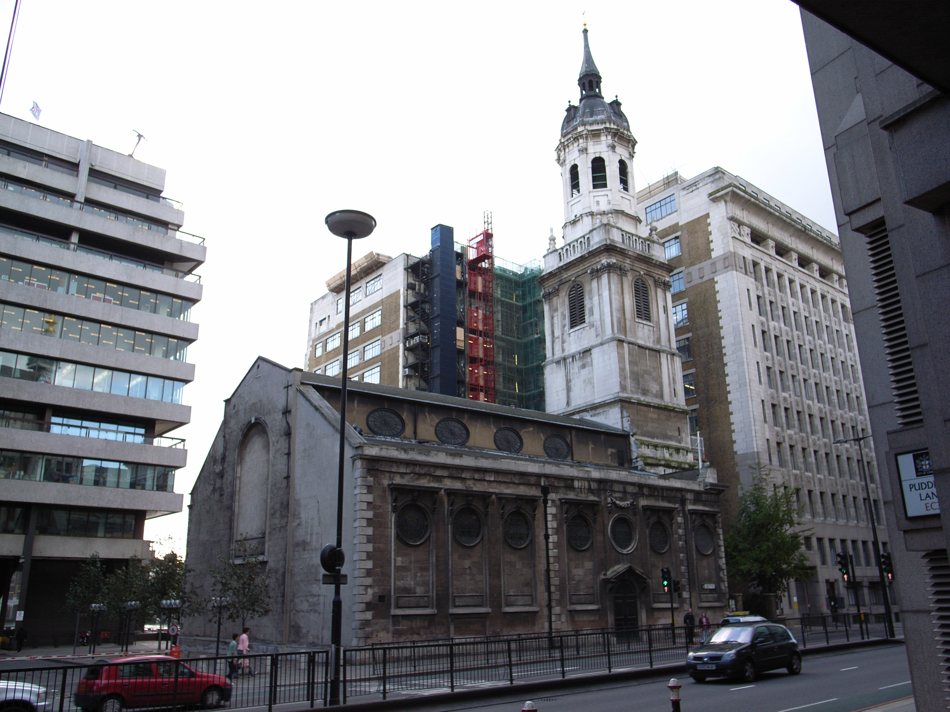 St Magnus-the-Martyr (1671-85, tower 1705), by Christopher Wren